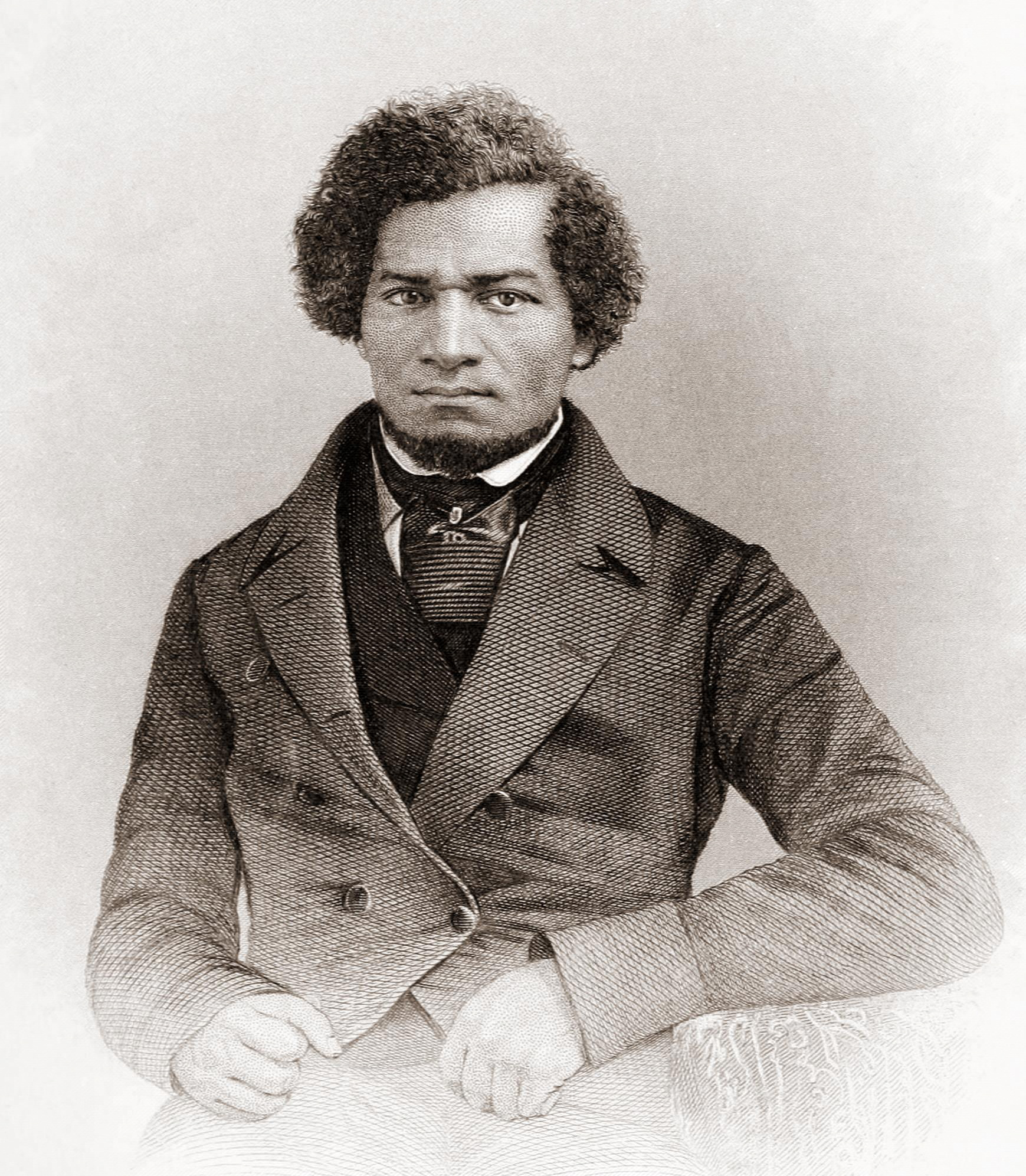 Portrait of Frederick Douglass as a younger man